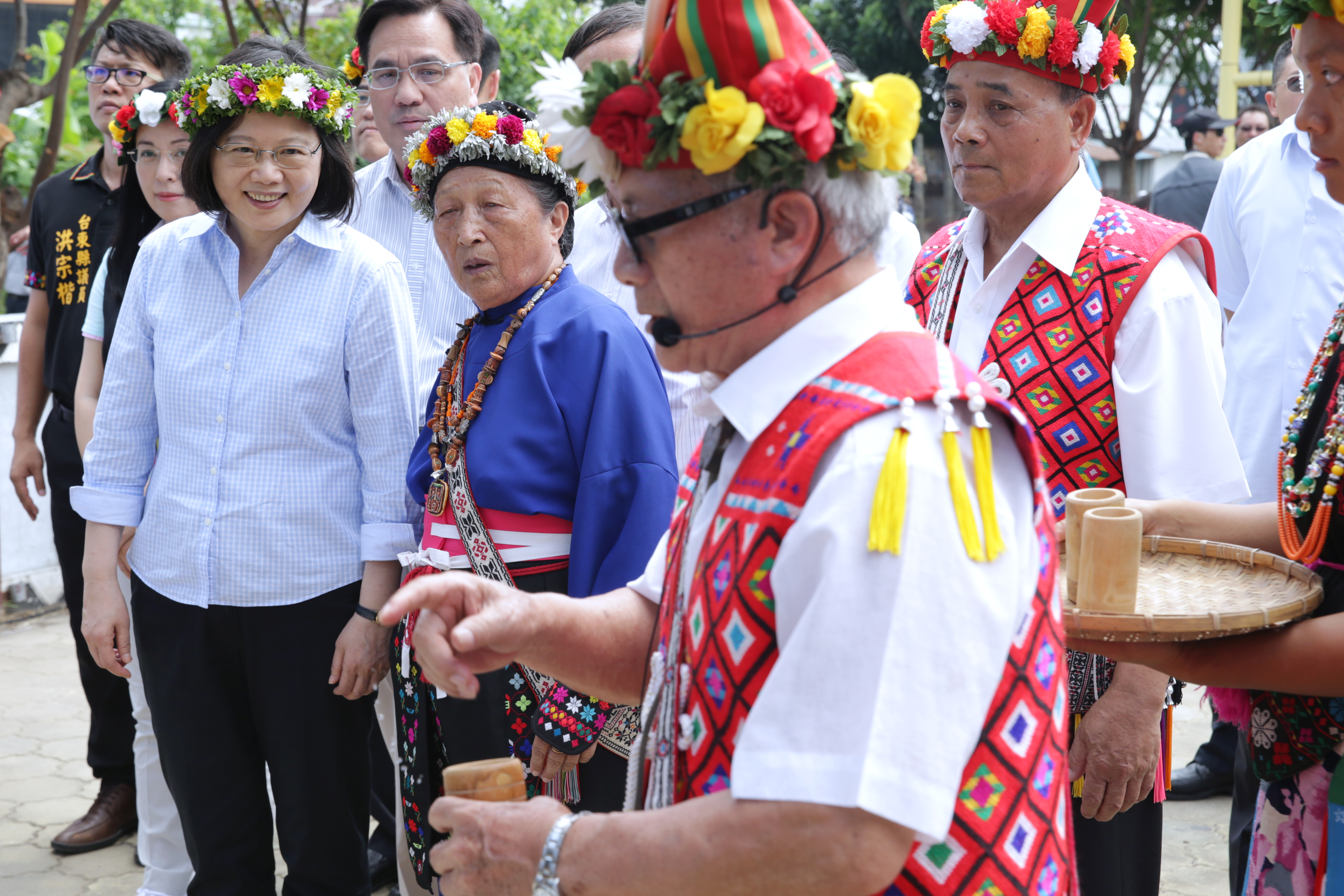 授權方式及範圍：中華民國總統府│政府網站資料開放宣告 Authorization Method & Scope: Office of the President, Republic of China (Taiwan) | Government Website Open Information Announcement